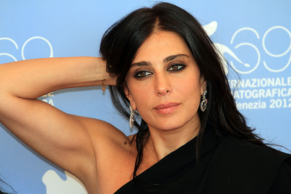 Nadine Labaki